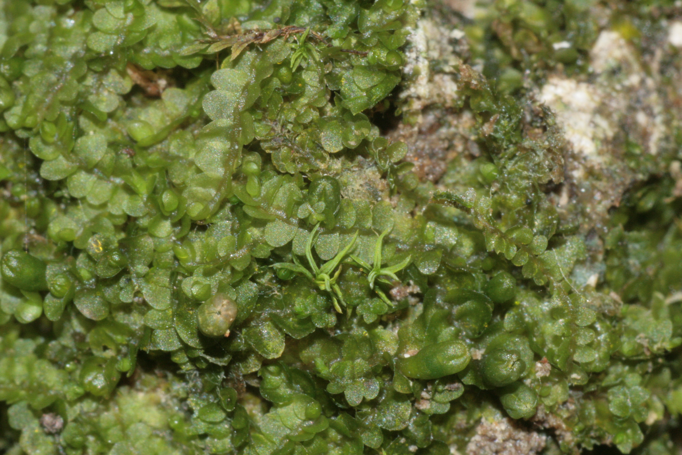 Jungermannia atrovirens